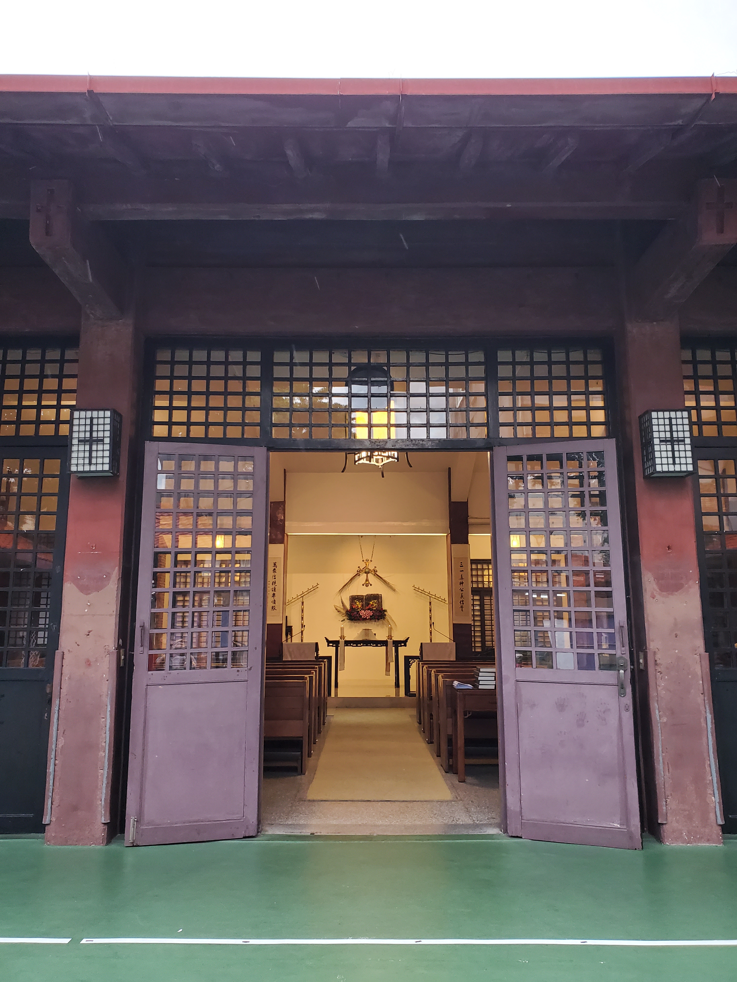 Entrance to the sanctuary of the Church of the Good Shepherd (Taipei)